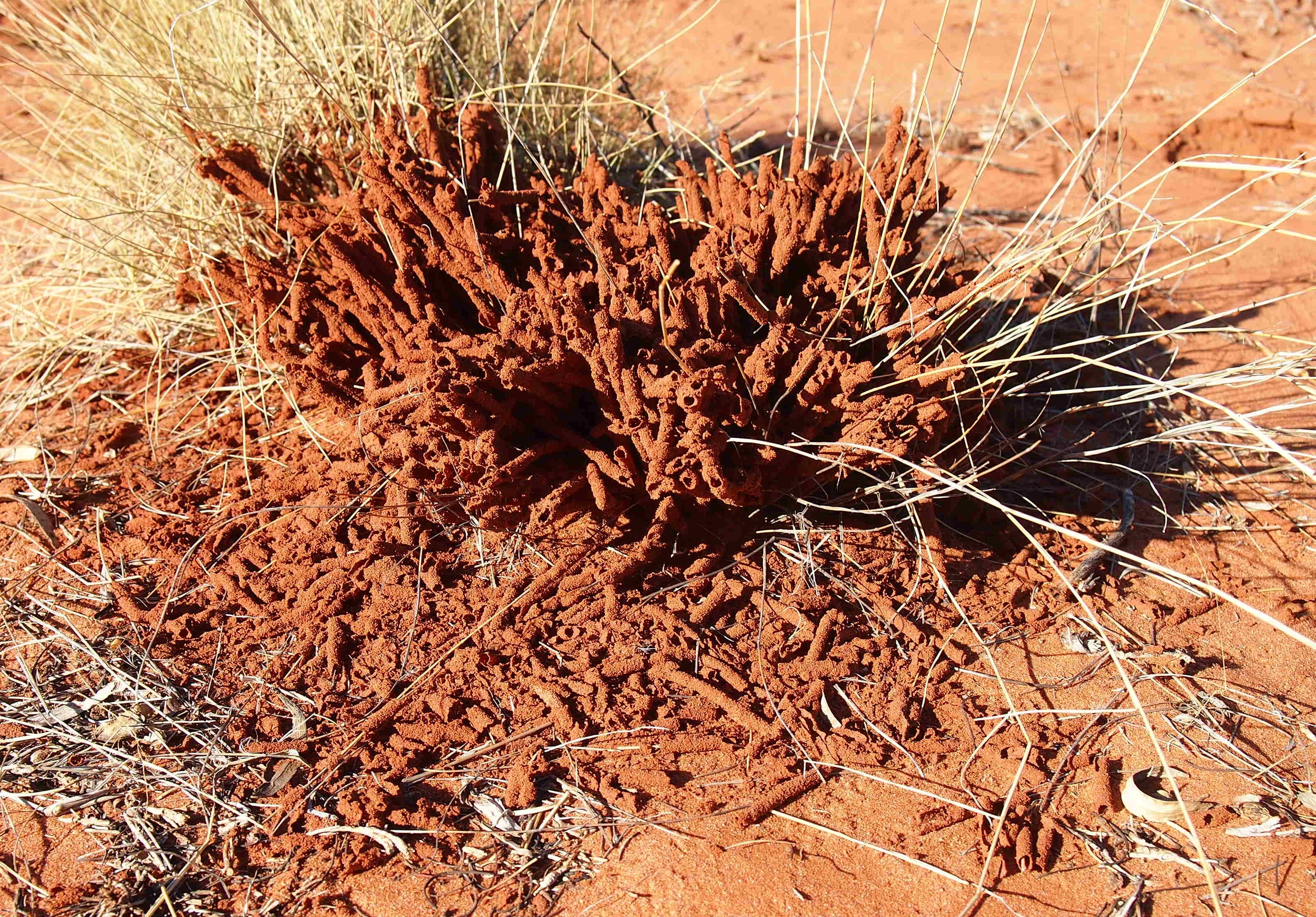 Protective casing built on spinifex by ants to protect mealy bugs Prorsococcus on which they feed.